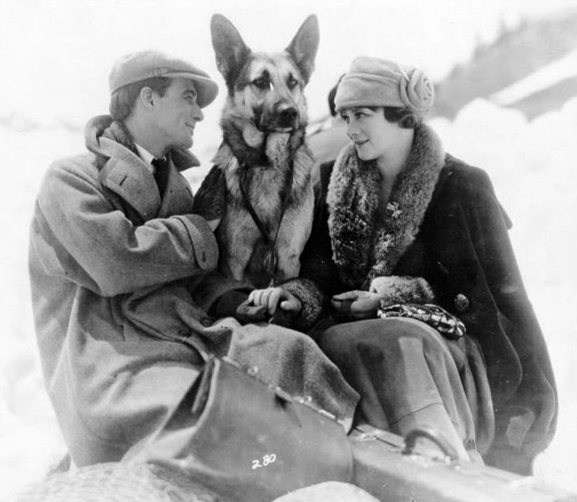 Promotional still for the 1922 film Brawn of the North, featuring Strongheart and Irene Rich